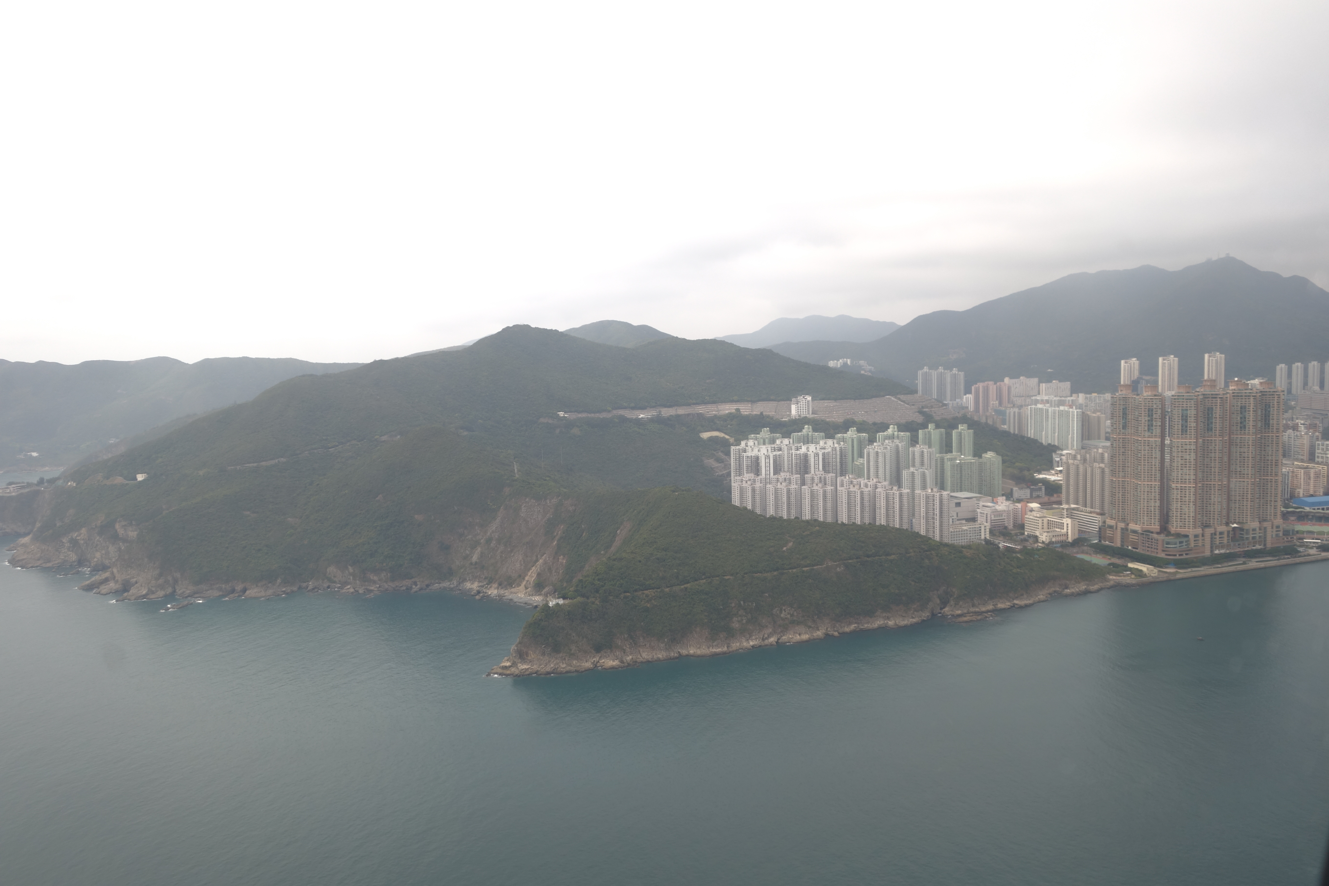 Aerial view of Siu Sai Wan from the Northeast, Island Resort (Hong Kong), Fullview Garden, Siu Sai Wan Estate and Cape Collinson are featured in the photograph.